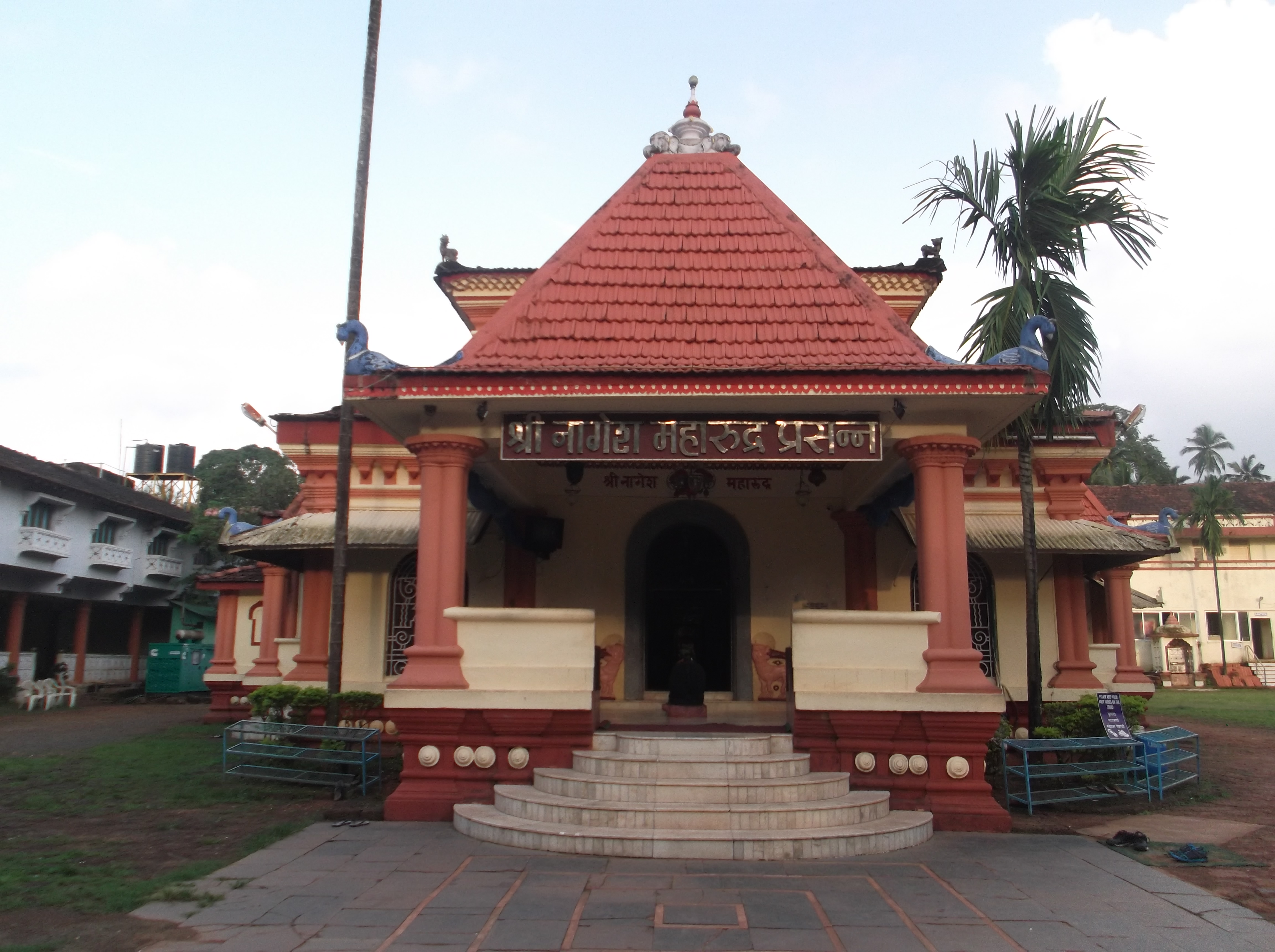 Shri Nagesh Temple, Ponda, Goa